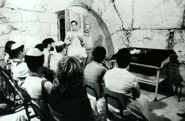 Specially approved interfaith religious service, with men and women sitting together, at Israel's Western Wall (Wilson's Arch, at that time a newly-excavated area to the left of the outside portion of the Wall), led by Asst Sixth Fleet Chaplain Arnold Resnicoff. Story in Jerusalem Post, Jerusalem Post, Sep 5, 1983, and Jerusalem Post International Edition, Sep 11-17, 1983, "U.S. Navy Chaplain Conducts Western Wall Interfaith Litany." Also in the photo, next to Resnicoff, is Yonatan Yuval, representing the Israel Ministry of Religious Affairs.